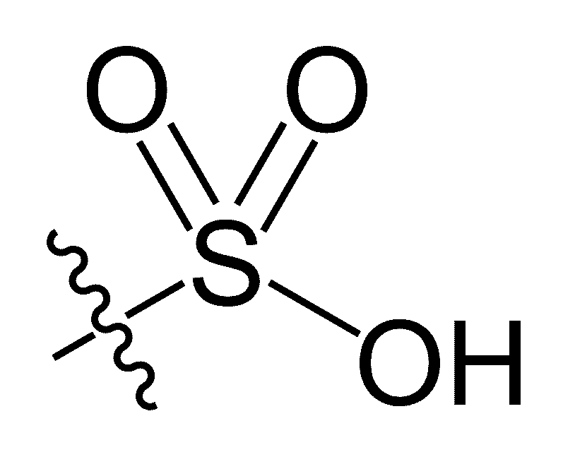 sulfonyl group